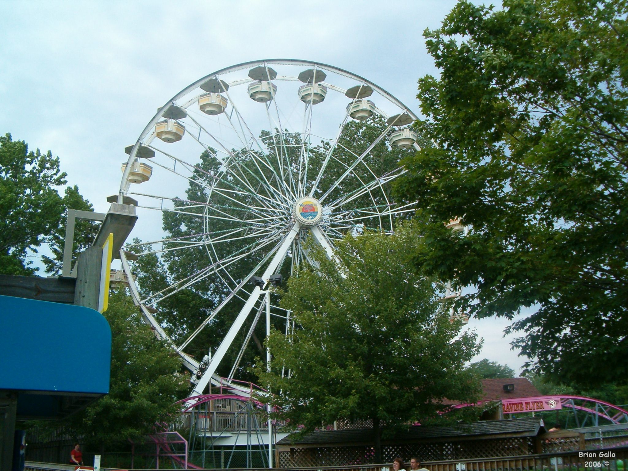 Ferris wheel at Waldameer Park and Water World, Erie, Pennsylvania